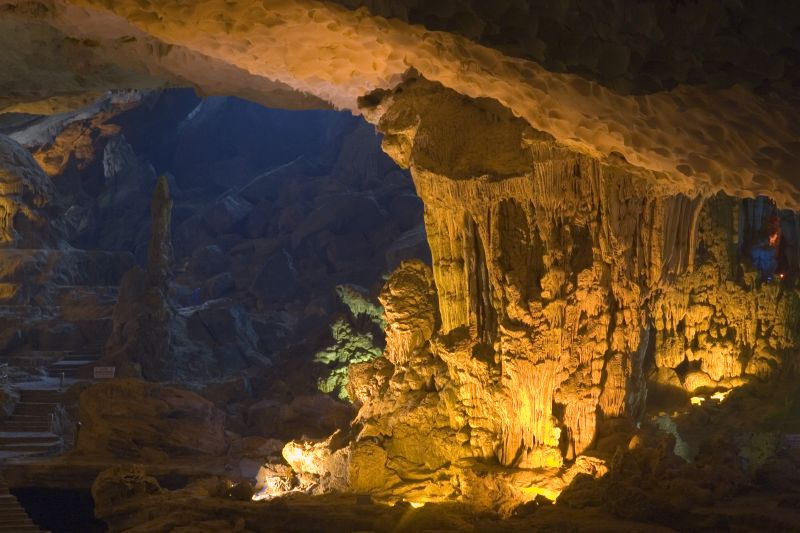 The Amazing Cave in Ha Long Bay.